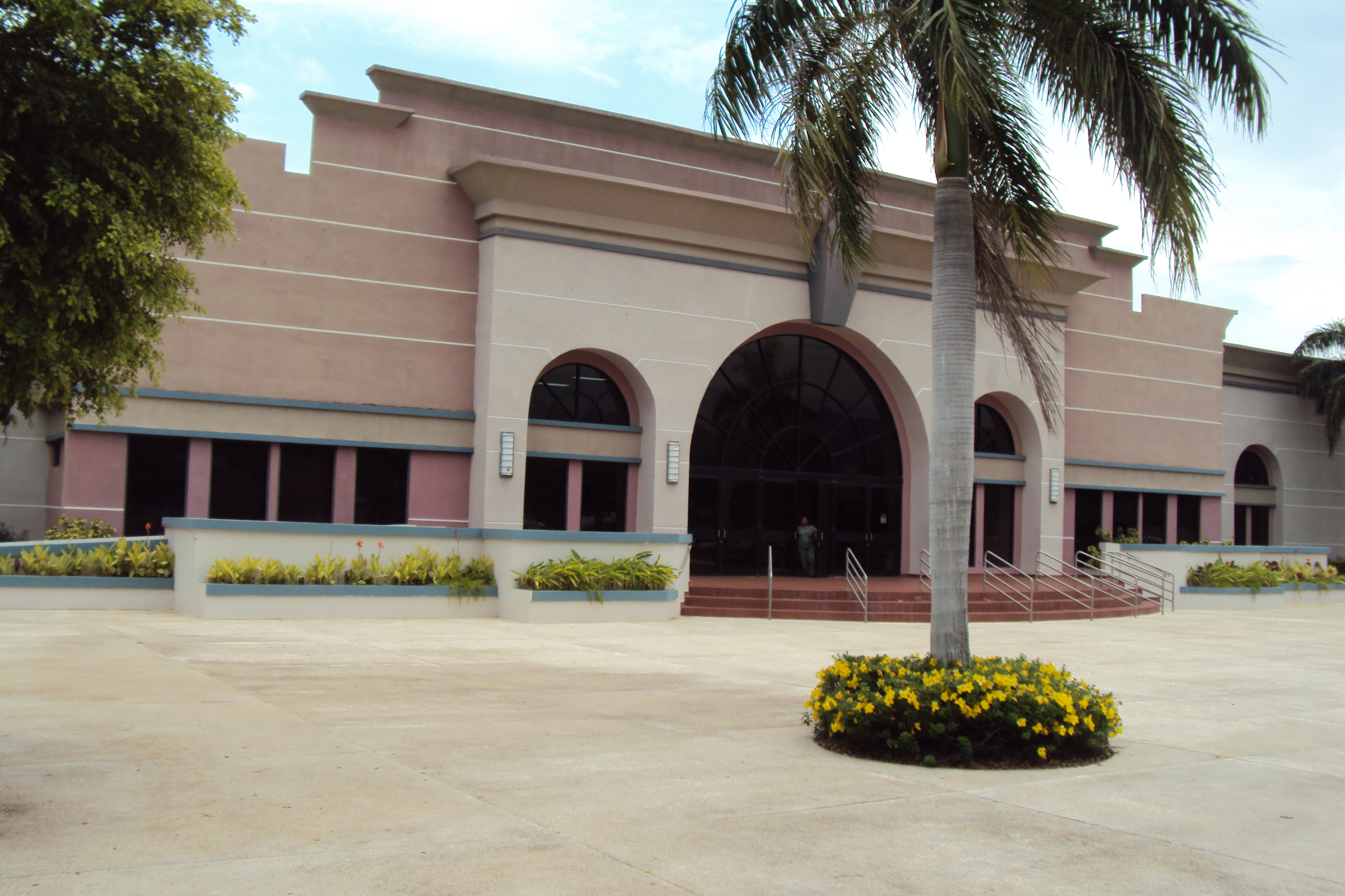 Front facade of the Guayama Convention Center.